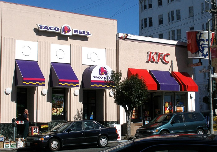 A co-branded Taco Bell/KFC fast food restaurant in San Francisco, California. Yum! Brands often likes to experiment with restaurants that offer products from two or more of its various brands. Photographed by user Coolcaesar on October 16, en:2005.